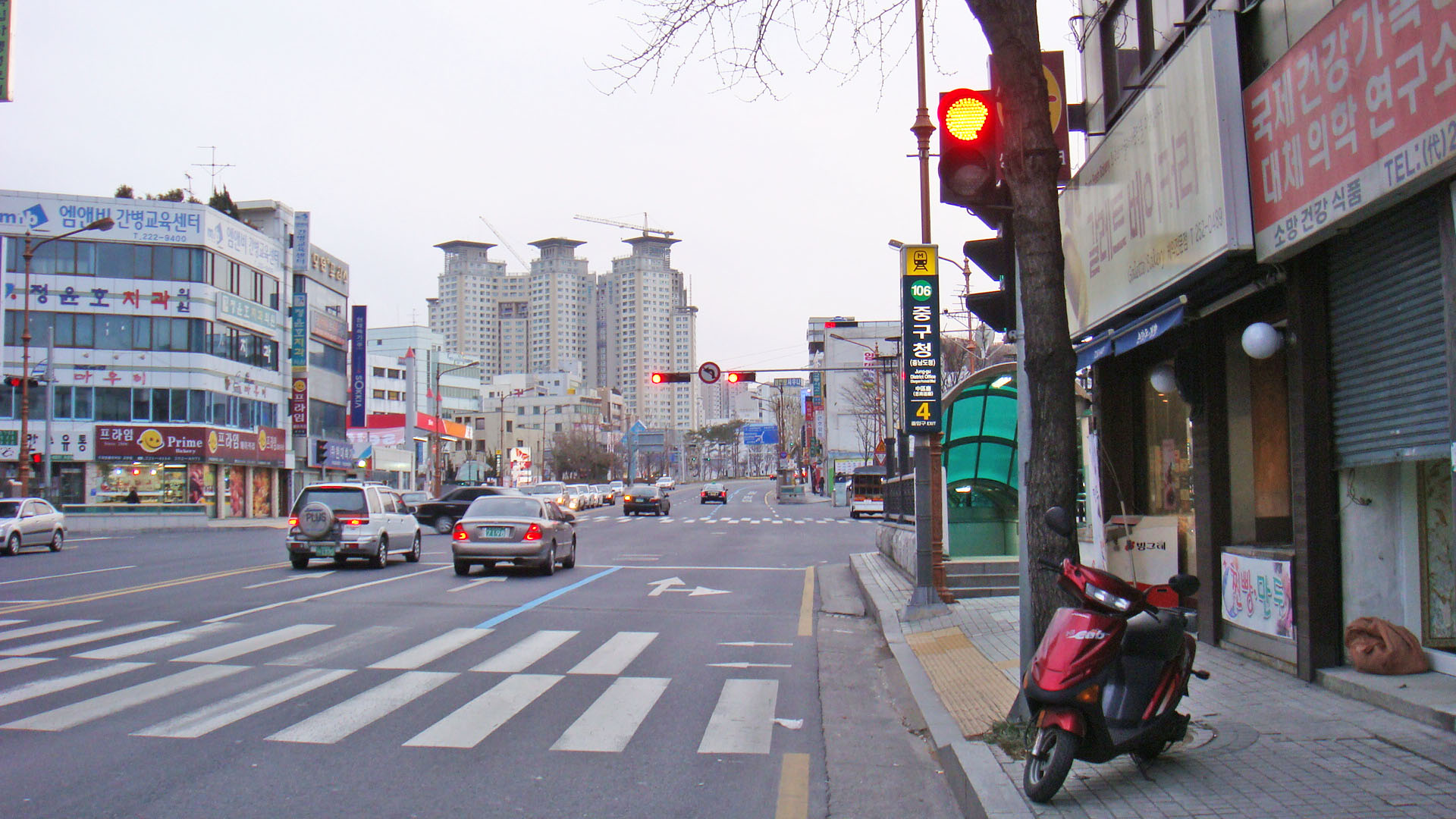 thanks to the Commonist